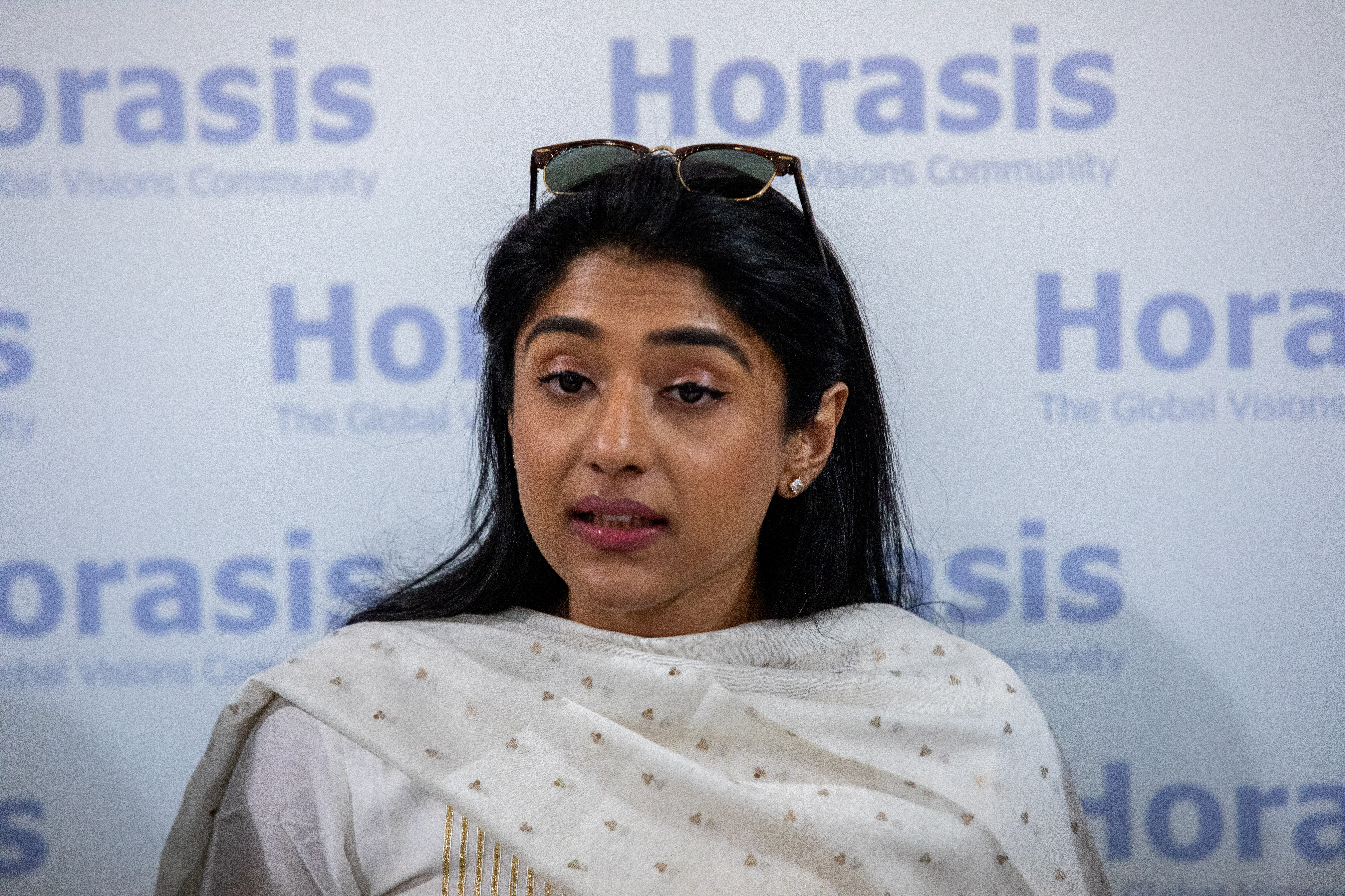 Priya Prakash, Founder and Chief Executive Officer, HealthSetGo, India